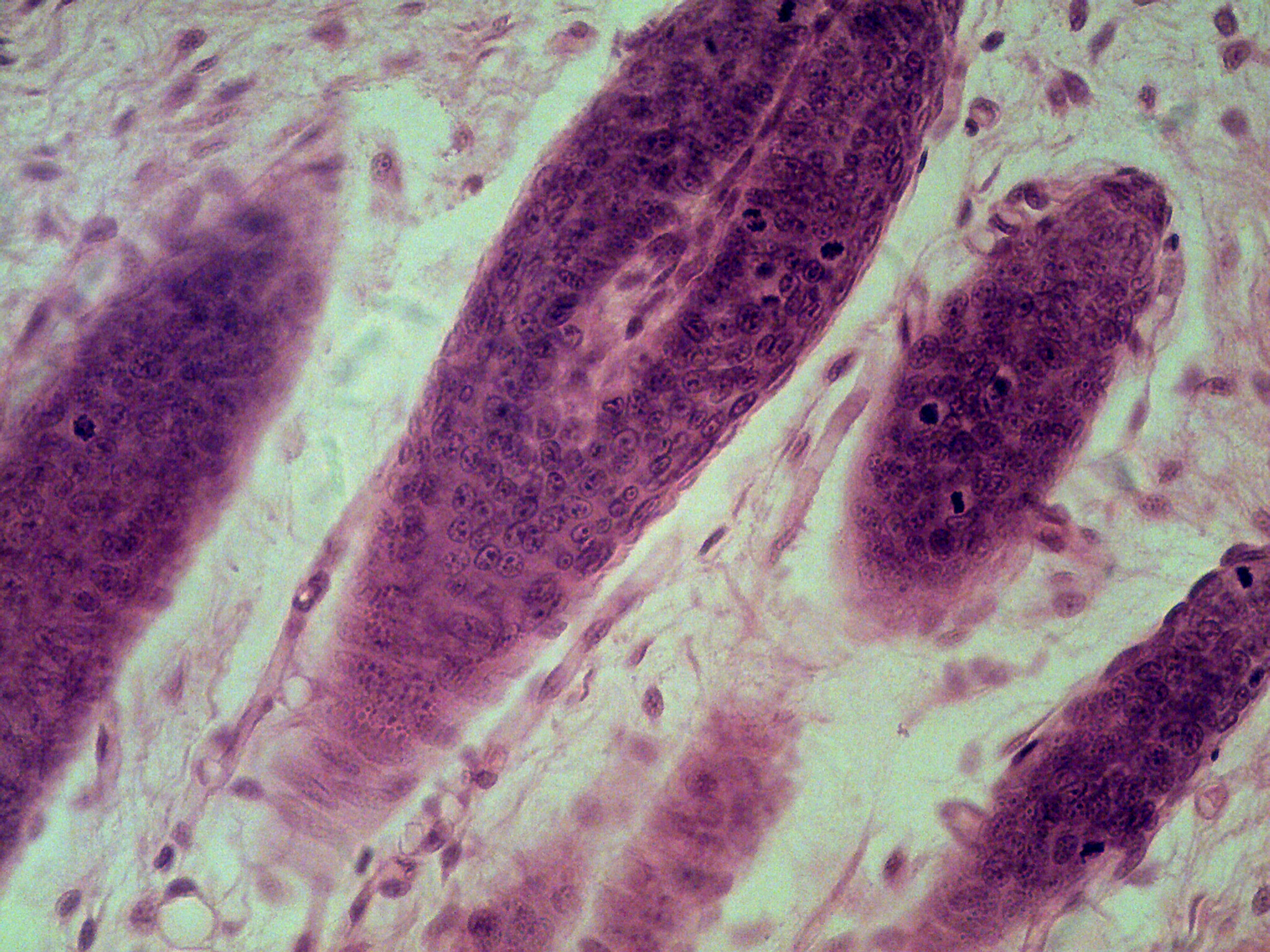 Mammalian skin showing hair follicles.